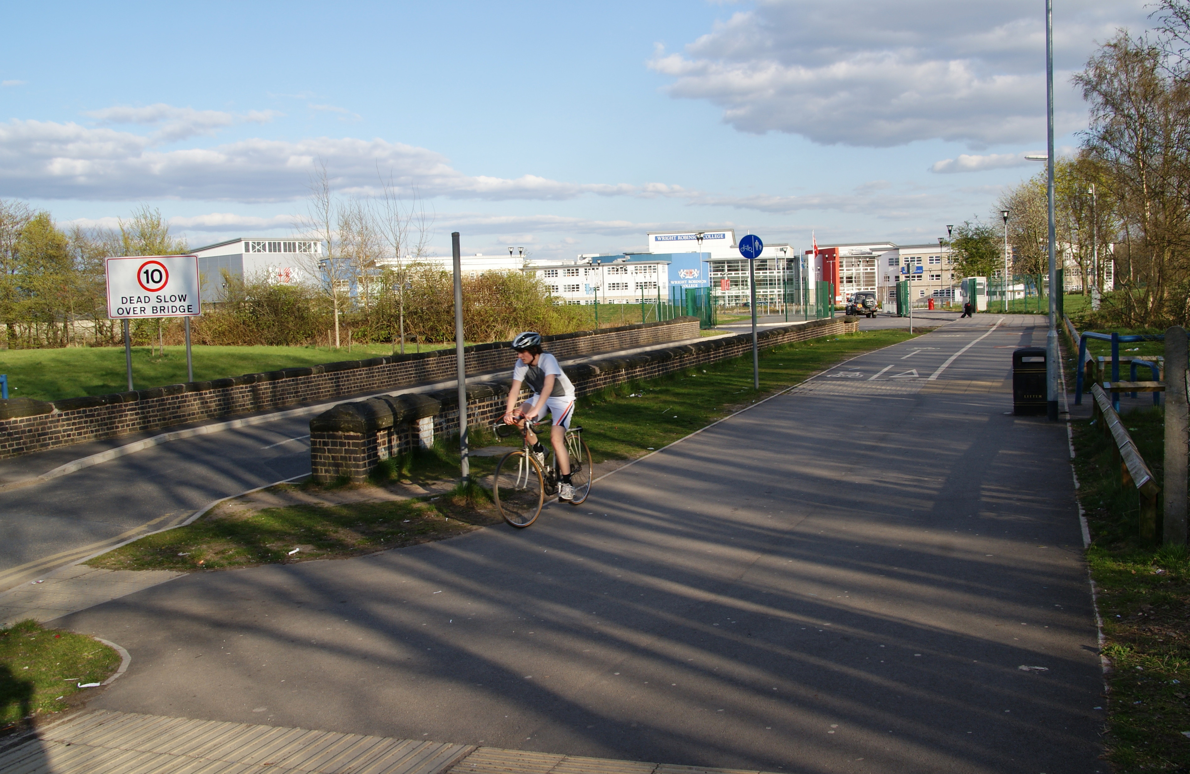 The entrance to Wright Robinson College